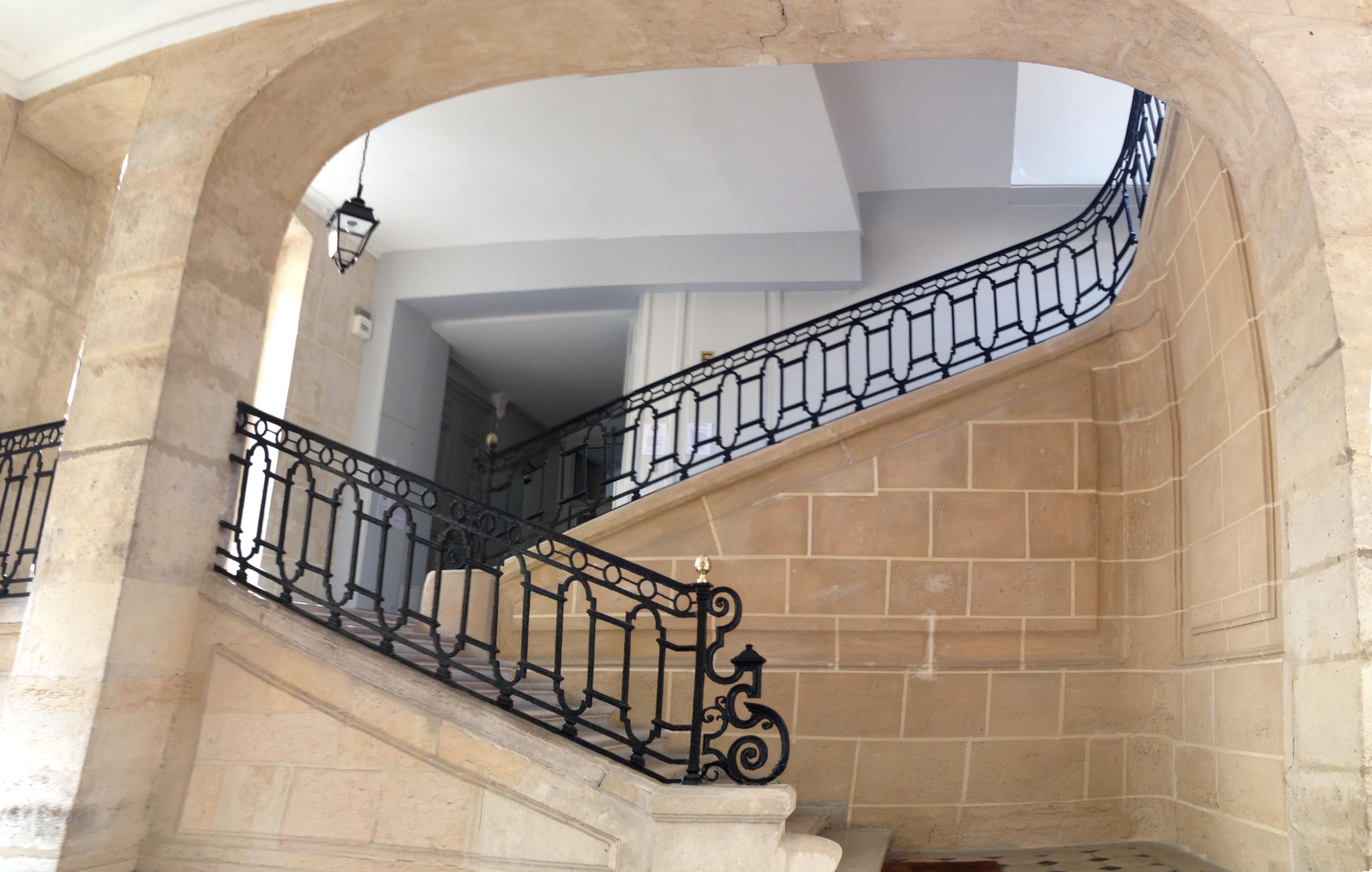 A photographic panorama composition of 4 images of the grand staircase of the French monument historique building Hôtel de Villeroy.